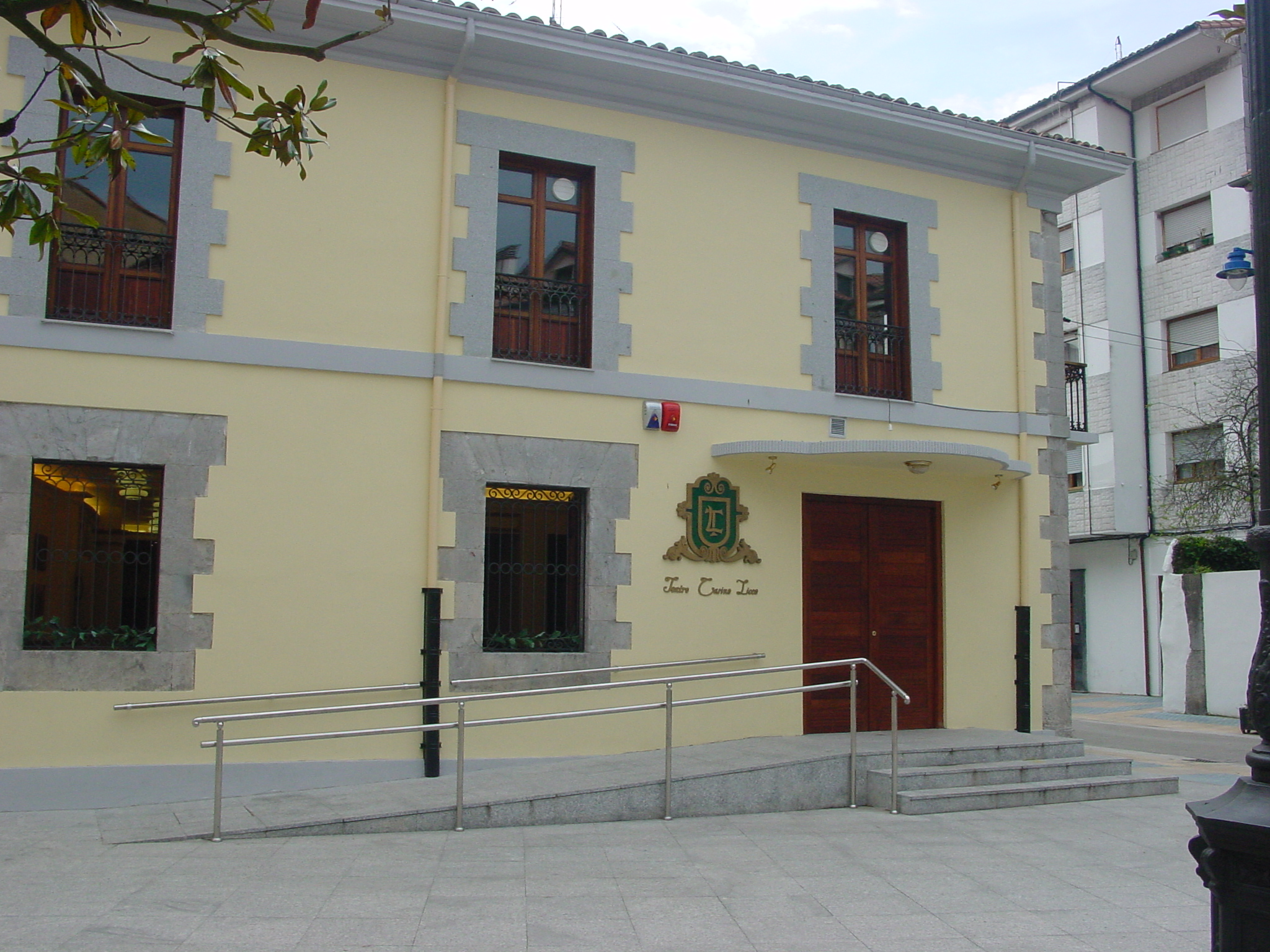 Santoña (Cantabria) Old facade of the Theatre Casino Liceo, built in 1862.